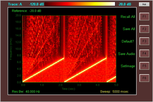 Spectrogram of an acoustic Linear Chirp Waveform. Spectrogram generated with Fatpigdog's PC based Real Time FFT Spectrum Analyzer.